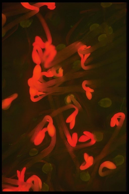 Plant mutant (FLU), unable to control the chlorophyll biosynthesis, glows red in the presence of the blue light due overacummulated chlorophyllide.